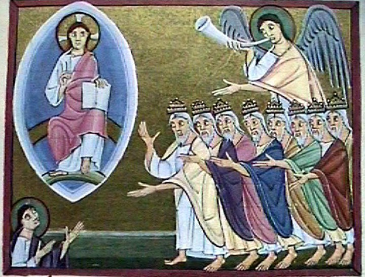 A page from the Bamberg Apocalypse the seventh trumpet blast